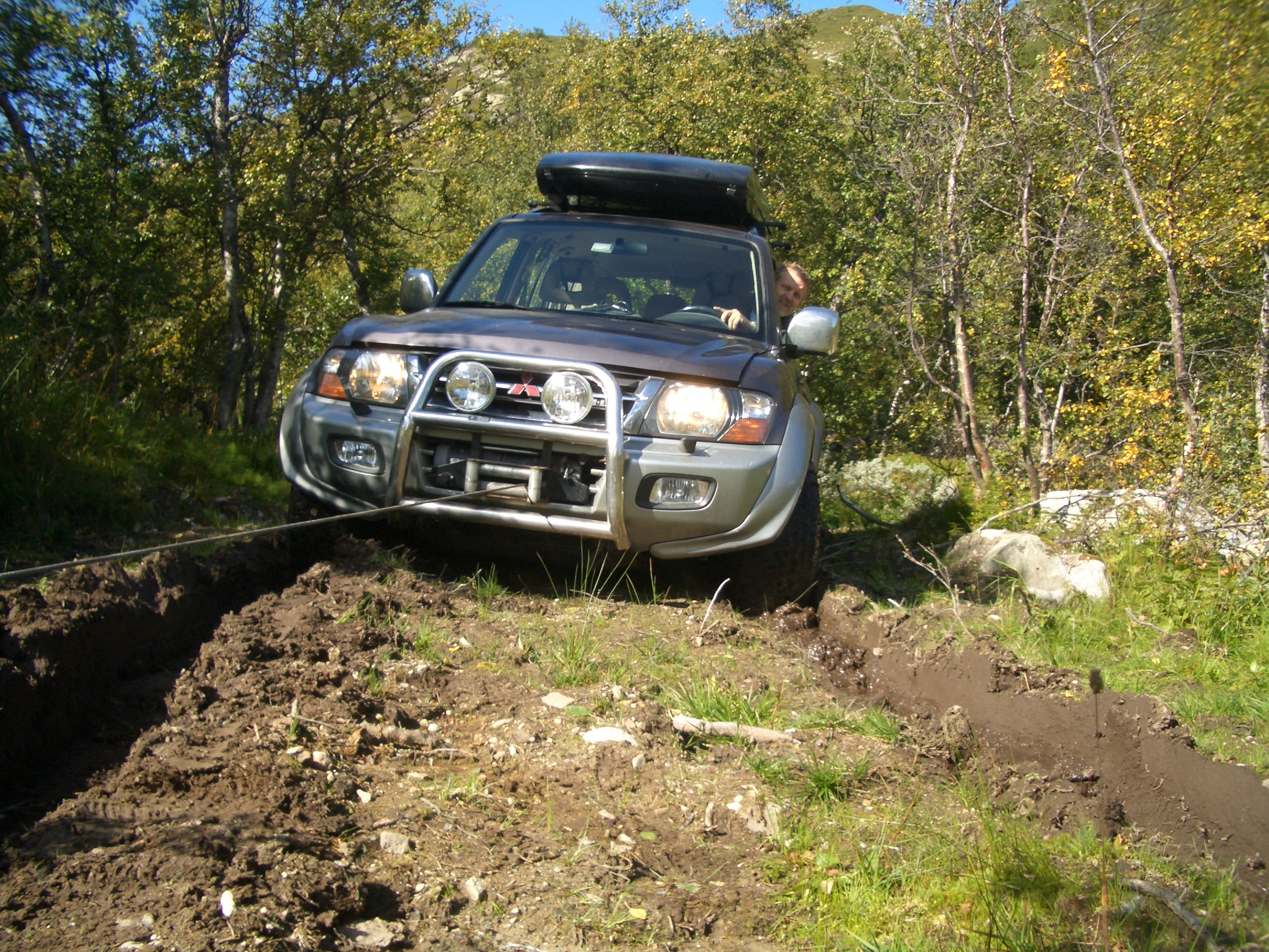 selv-Winching of a car.